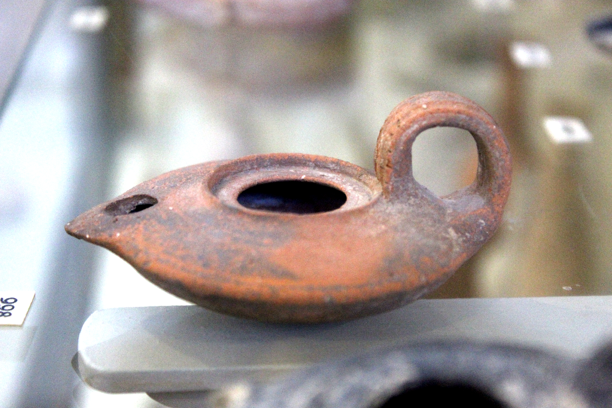 Earthenware lamp (Rockefeller Museum)